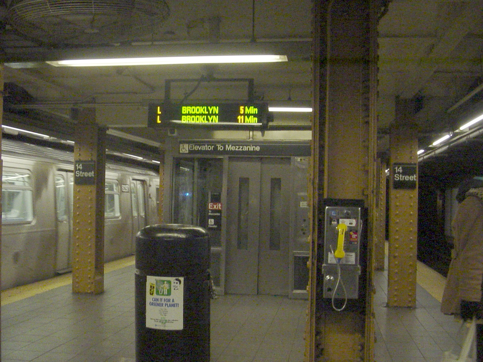 At 14th Street – Union Square (BMT Canarsie Line) station platform, view of elevator and a "countdown clock."